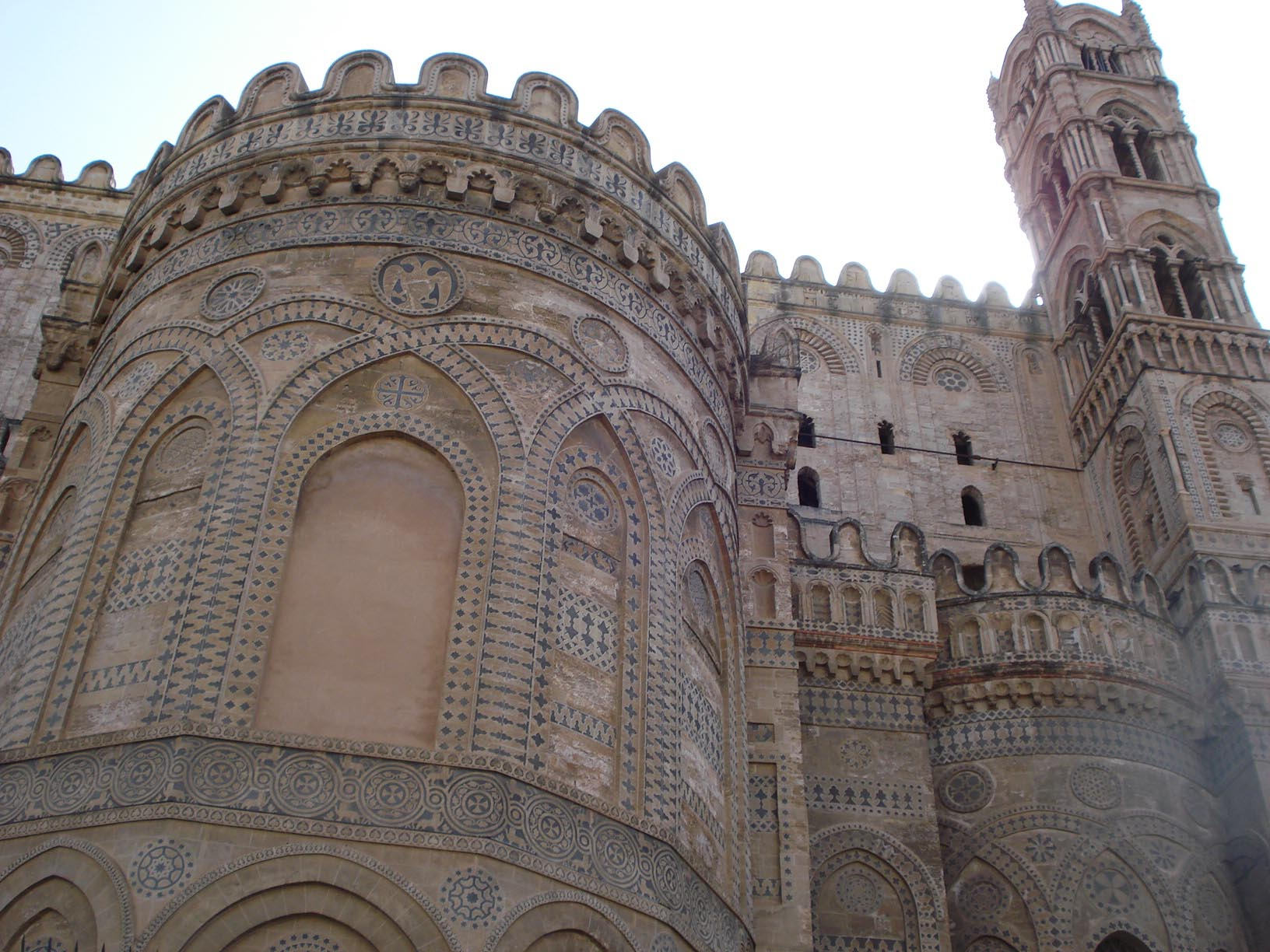 Palermo Cathedral apse